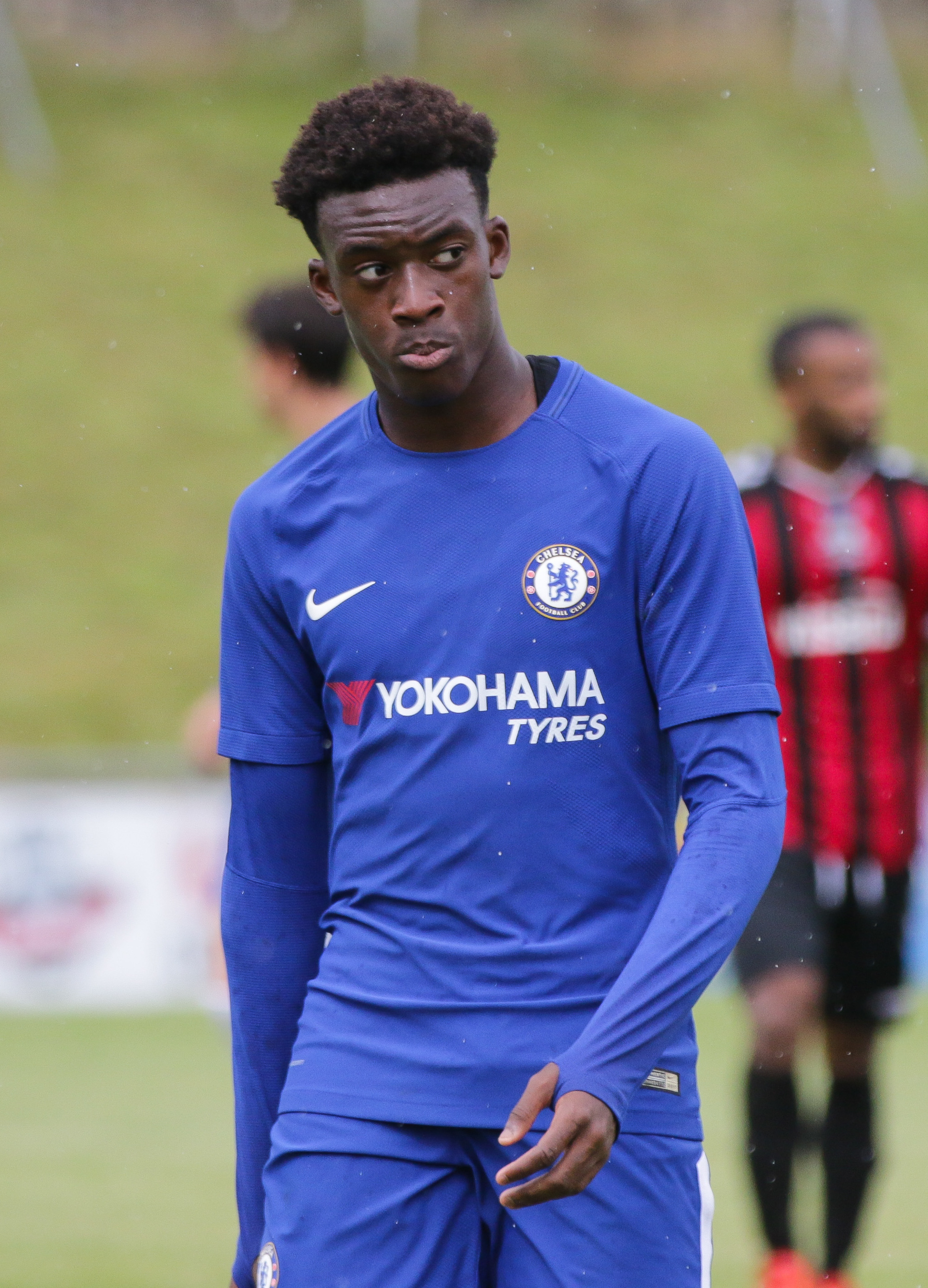 Lewes 0 Chelsea DS 1 Pre Season 22 07 2017-599.jpg